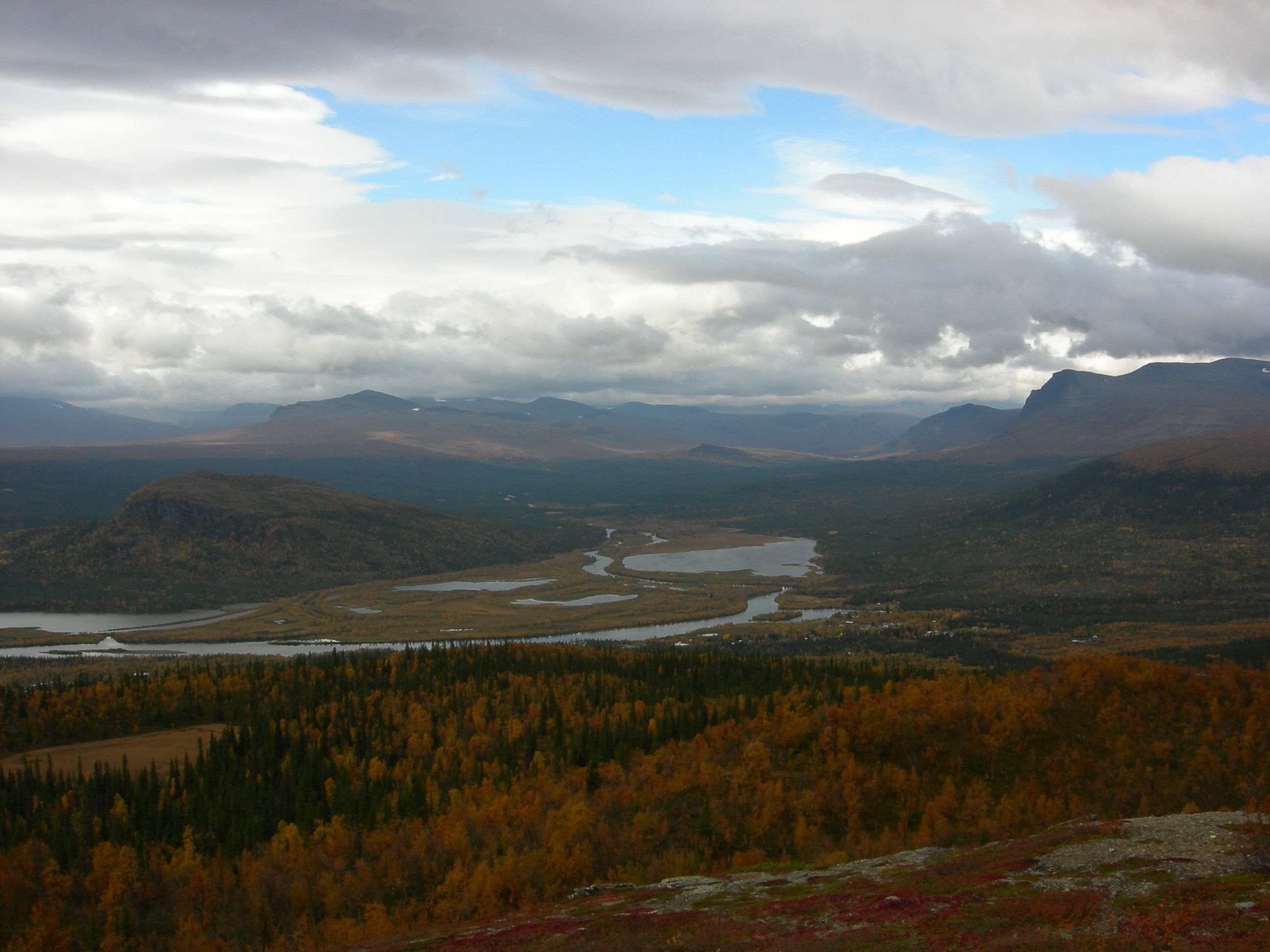 Kvikkjokk village with Tarraätno/Kamajåkkå River delta & Lake Miertekjaure, Norbotten, Sweden, seen from Sjnjerak